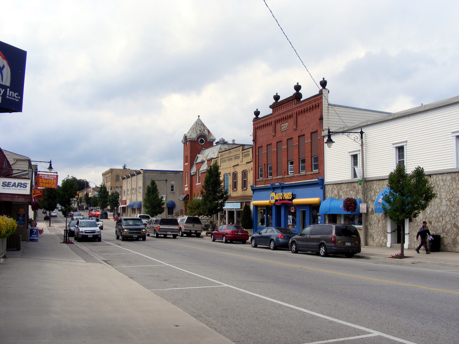 Harriston main Elora Street.